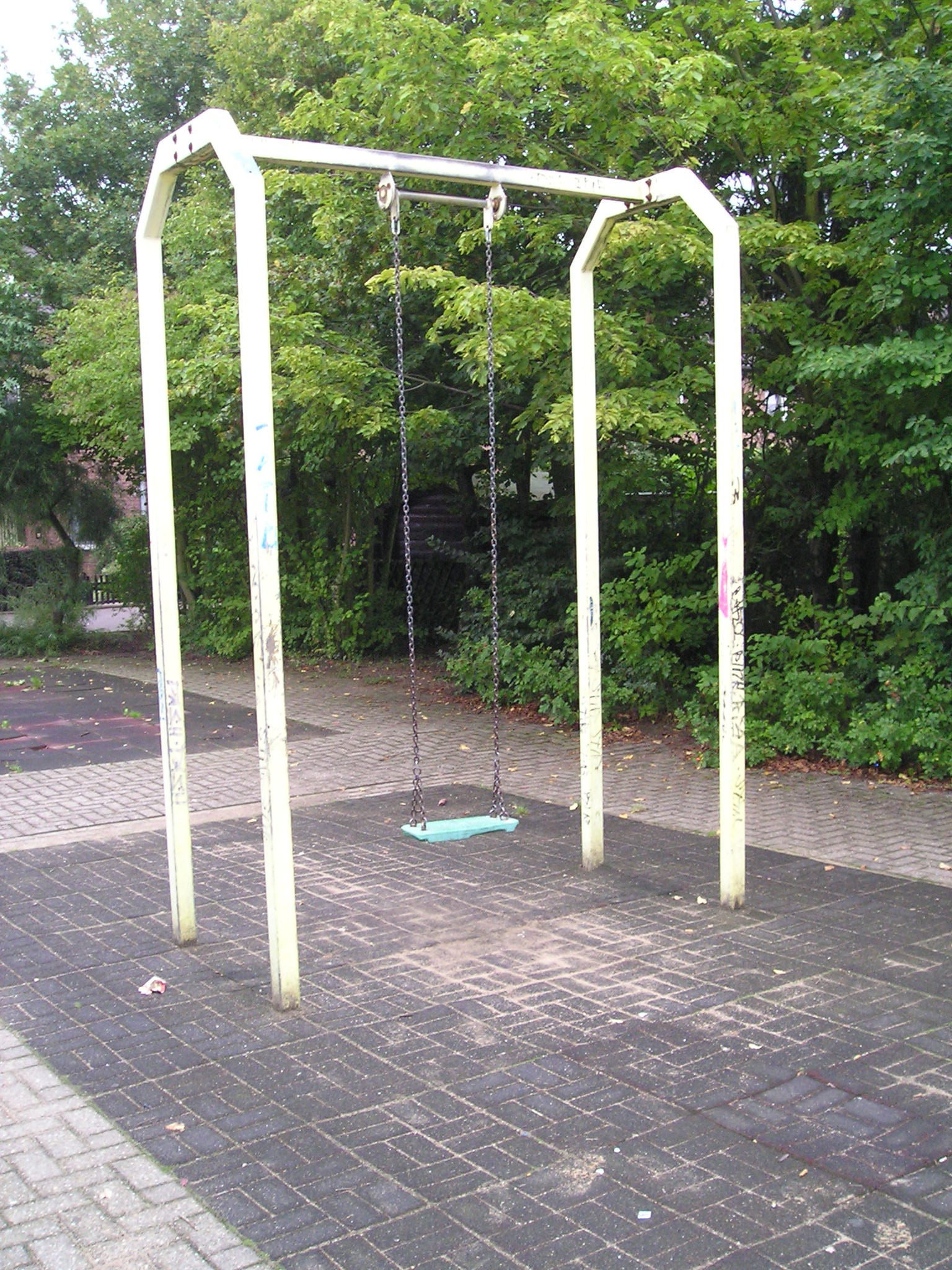 swing for children